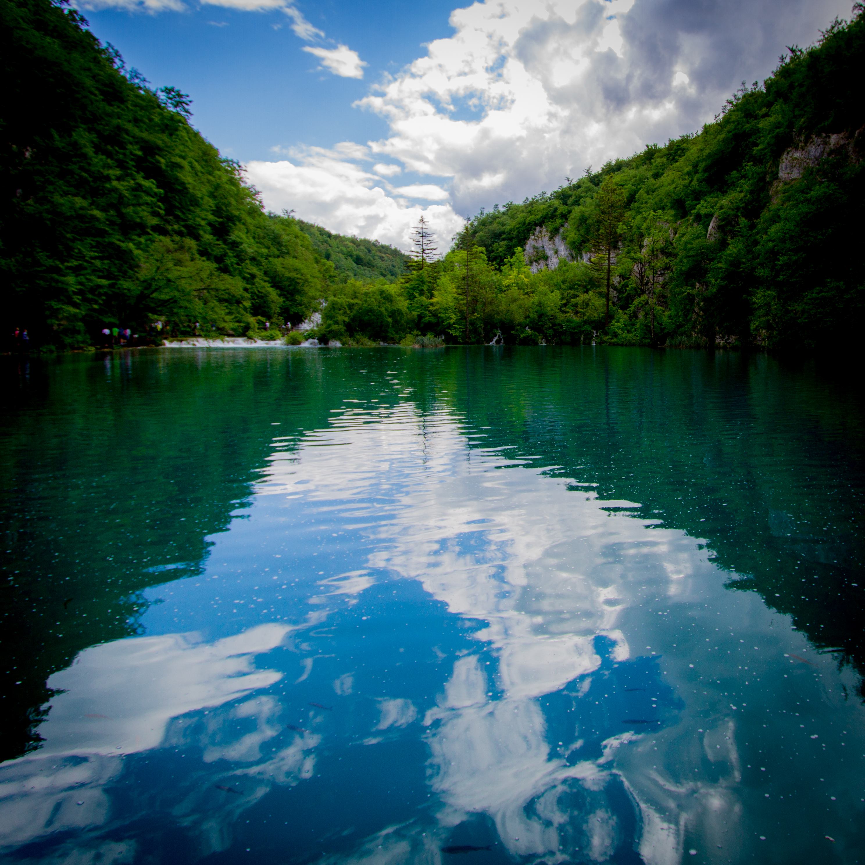 Lake Gavanovac at Plitvička jezera